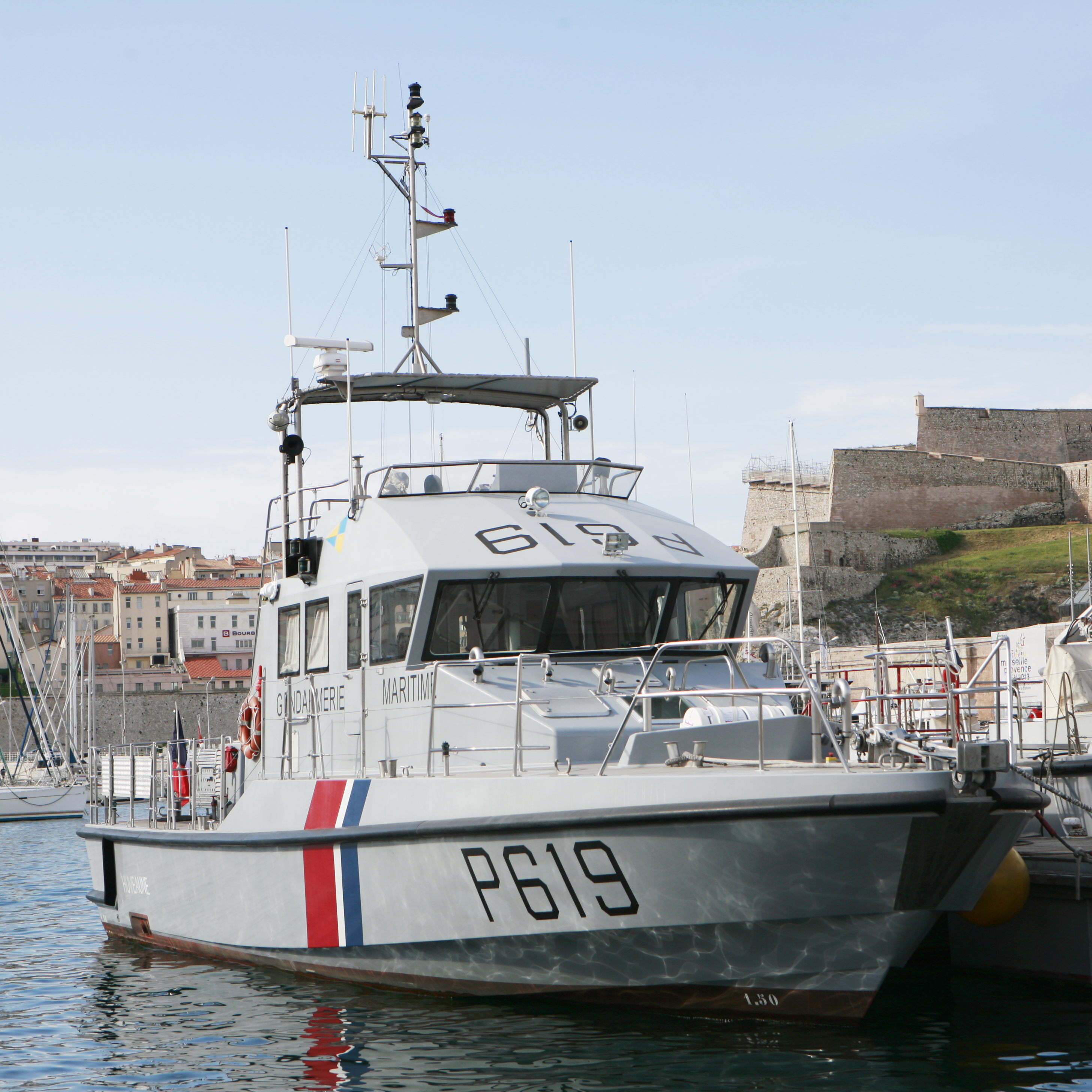 VSCM (vedette côtière de surveillance maritime, "Coastal boat for sea surveillance") Huveaune (P619), of the Gendarmerie maritime, photographed in the old harbour of Marseille.